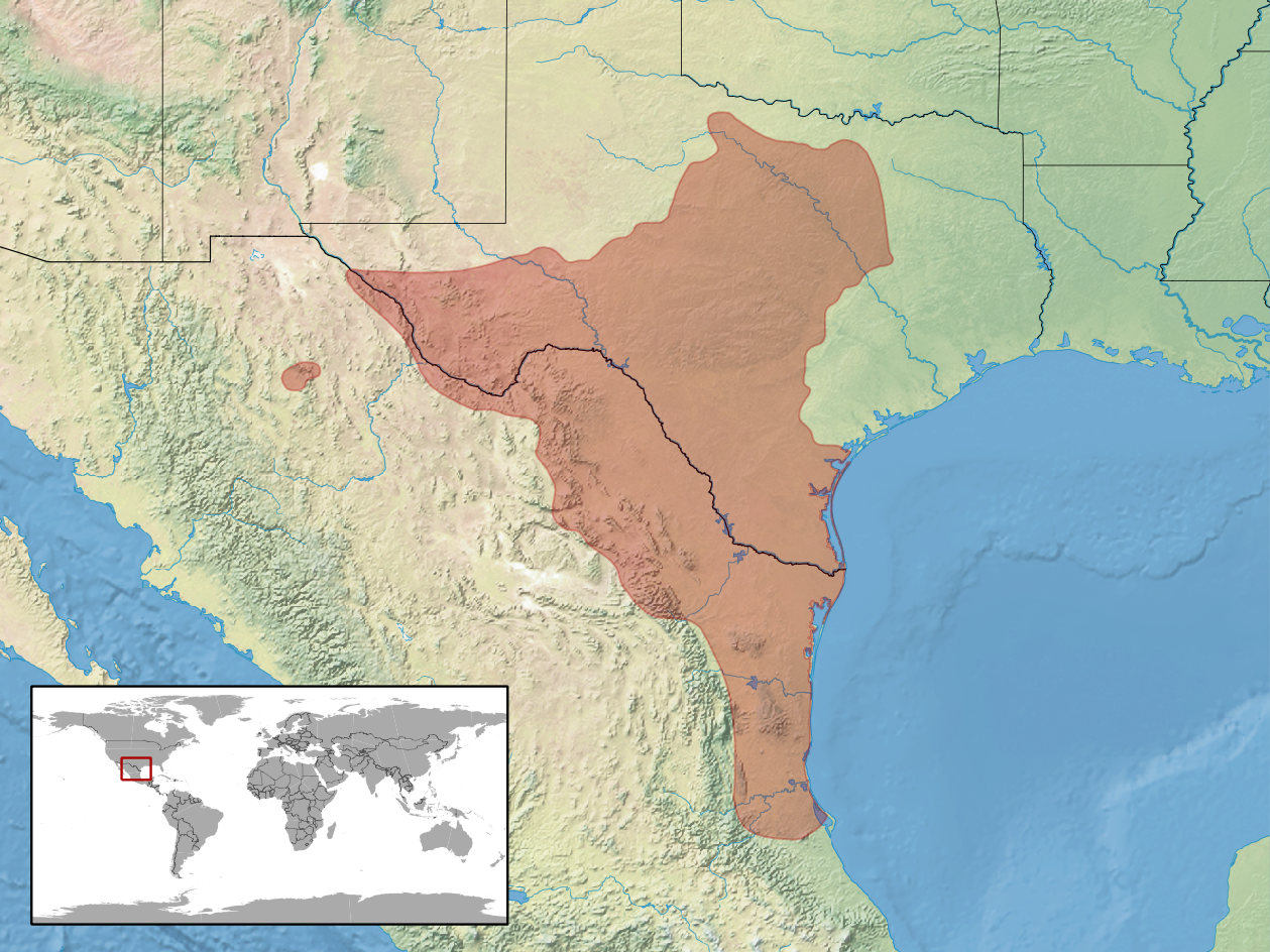 geographic distribution of Plestiodon tetragrammus